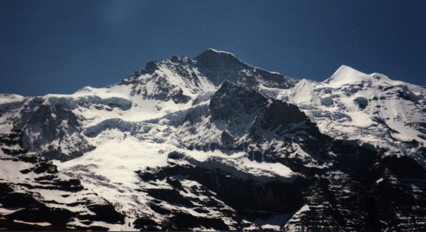 Photo of Jungfrau from north